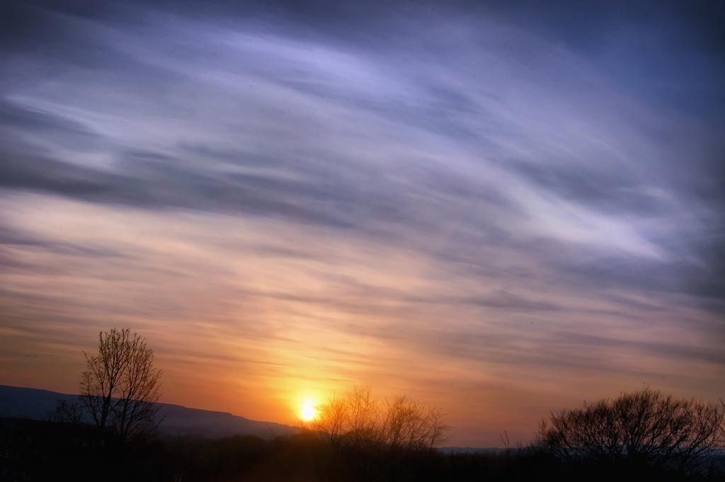 April 15th, 2010 was the day that UK airspace fell silent as all flights were grounded by the eruption of an Icelandic volcano over a thousand kilometres away. After 200 years of sleep, Eyjafjallajökull erupted on the 15th April and caused disruption across Europe by spewing millions of tonnes of dust, ash and sulphur dioxide upwards of 35,000 feet. The blast created what is known as ‘volcanic aerosol’ - a colourful mixture of ash and sulphur compounds - in the stratosphere. This scatters an invisible blue glow which, when mixed with the red light of the setting sun, produces a colour known as ‘volcanic lavender’. As the diffuse eruption cloud continued its journey across the UK on April 16th, 2010, a clear sky gave the sun another opportunity to illuminate the stratosphere in a glorious light show. Volcanic dust was found on cars in Sheffield and Yorkshire was treated to scenes like this magenta-hued sunset over Ilkley Moor. The BBC reported that airlines lose about £130,000,000 a day as a result of an industry-wide shutdown during events like this one.